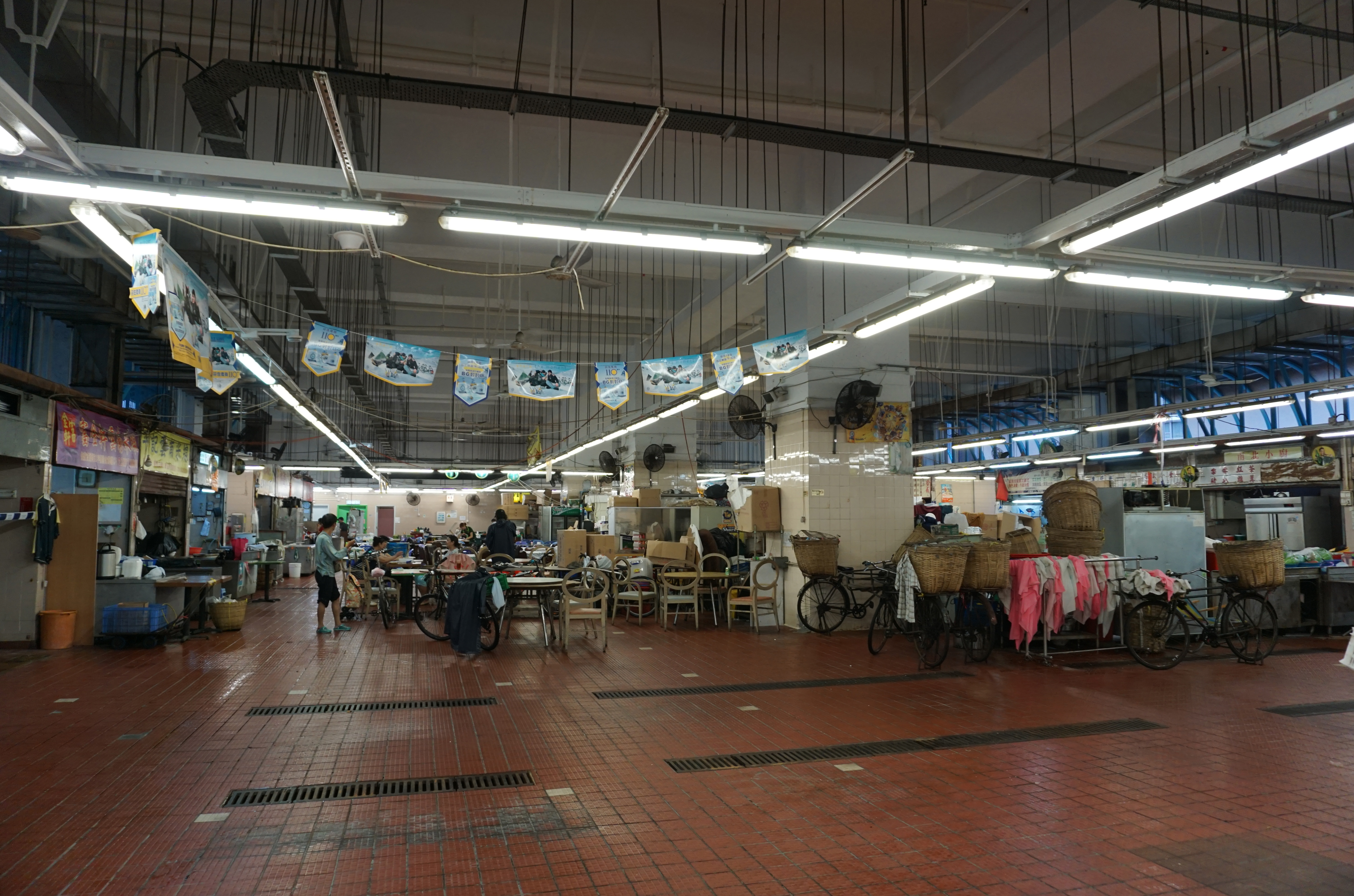 Kwun Chung Municipal Services Building Cooked Food Centre in Jordan, Hong Kong.